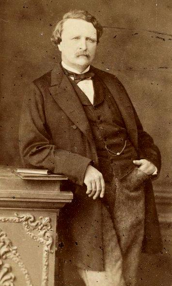 Hugh Algernon Weddell's portrait